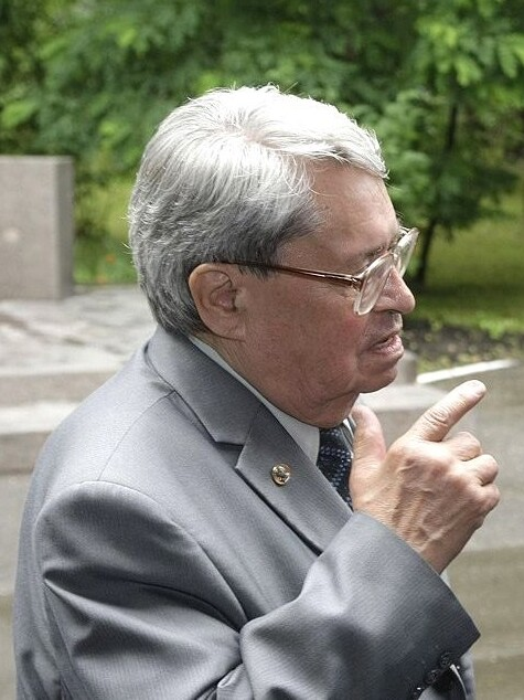 Yurij Alekseevich Trutnev - russian physicist, the member of the Russian Academy of Sciences